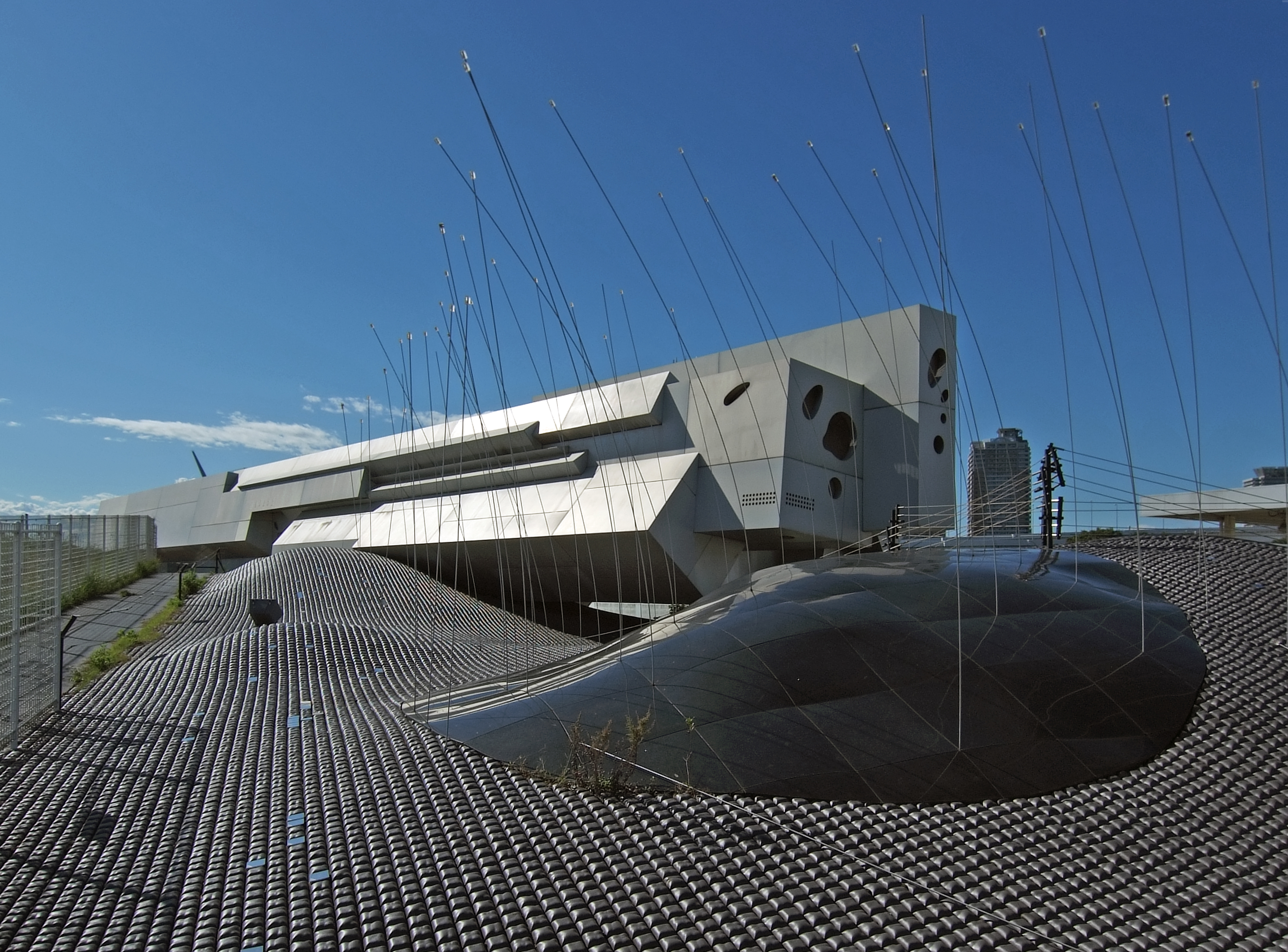 K-Museum, at Ariake, Tokyo, Japan, designed by Makoto Watanabe in 1997.